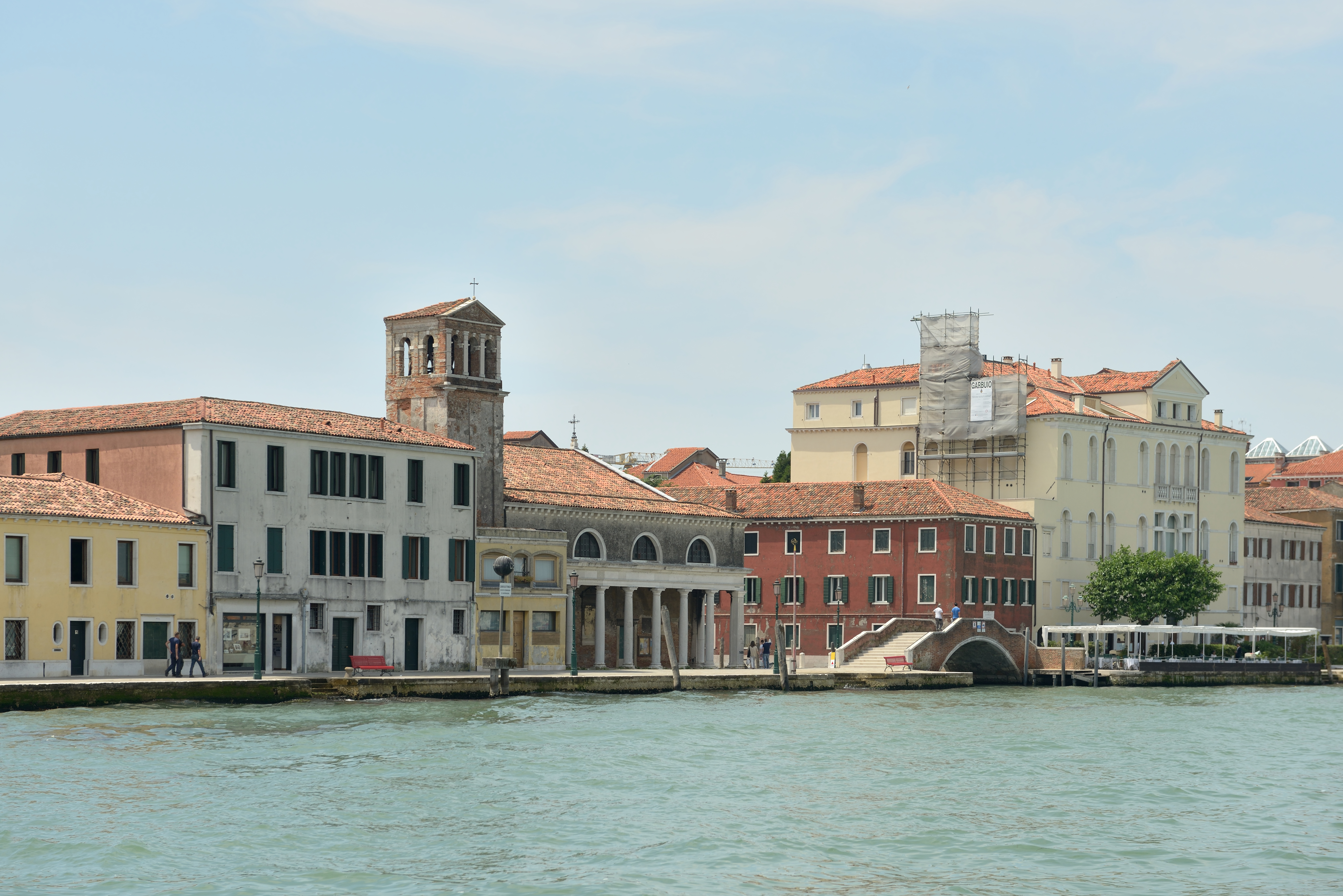 The Sant'Eufemia church and the Rio di Sant'Eufemia canal on the Giudecca island in Venice